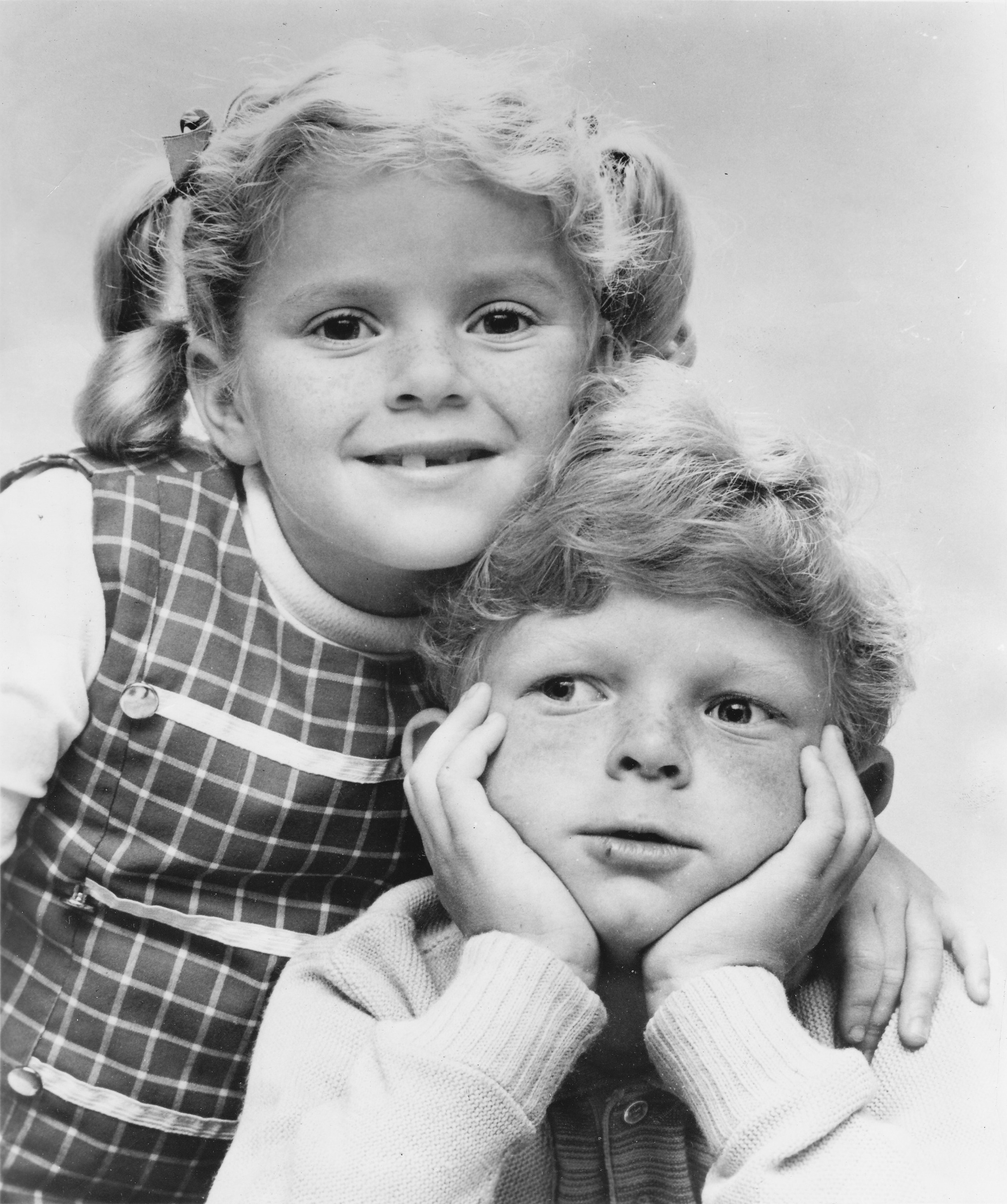 Publicity photo of American child actors, Anissa Jones and Johnny Whitaker promoting the CBS comedy series Family Affair, circa 1967.